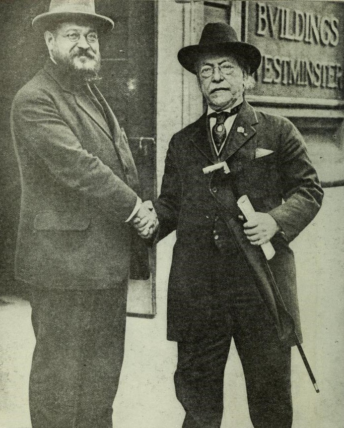 Picture of Samuel Gompers with Albert Thomas